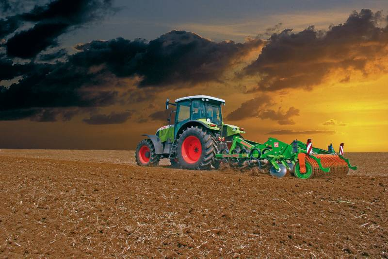 Claas tractor with Amazone Cenius 3001 mulching cultivator shown in the sunset (montage likely)